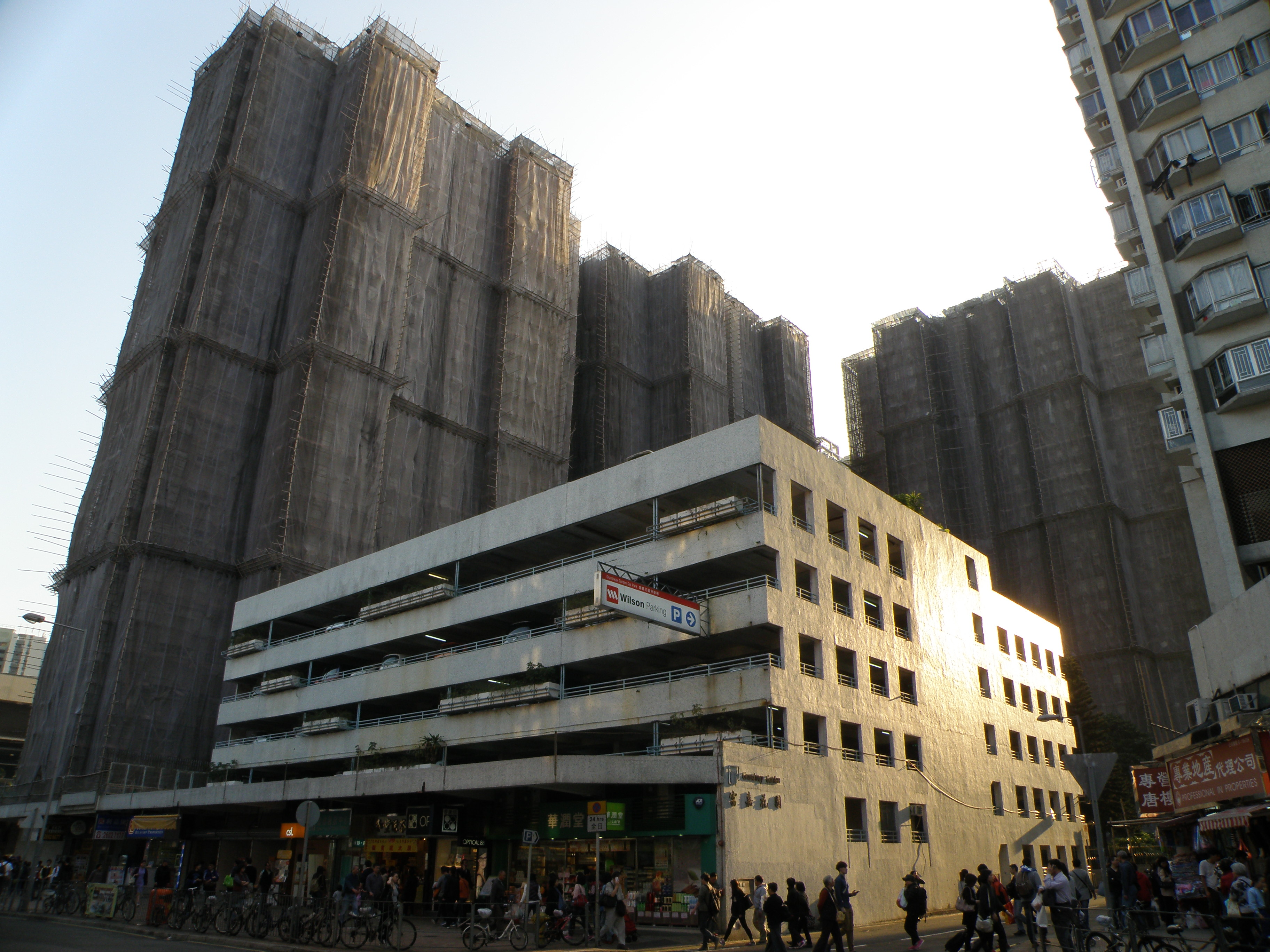 Grandway Garden in Tai Wai, Hong Kong.